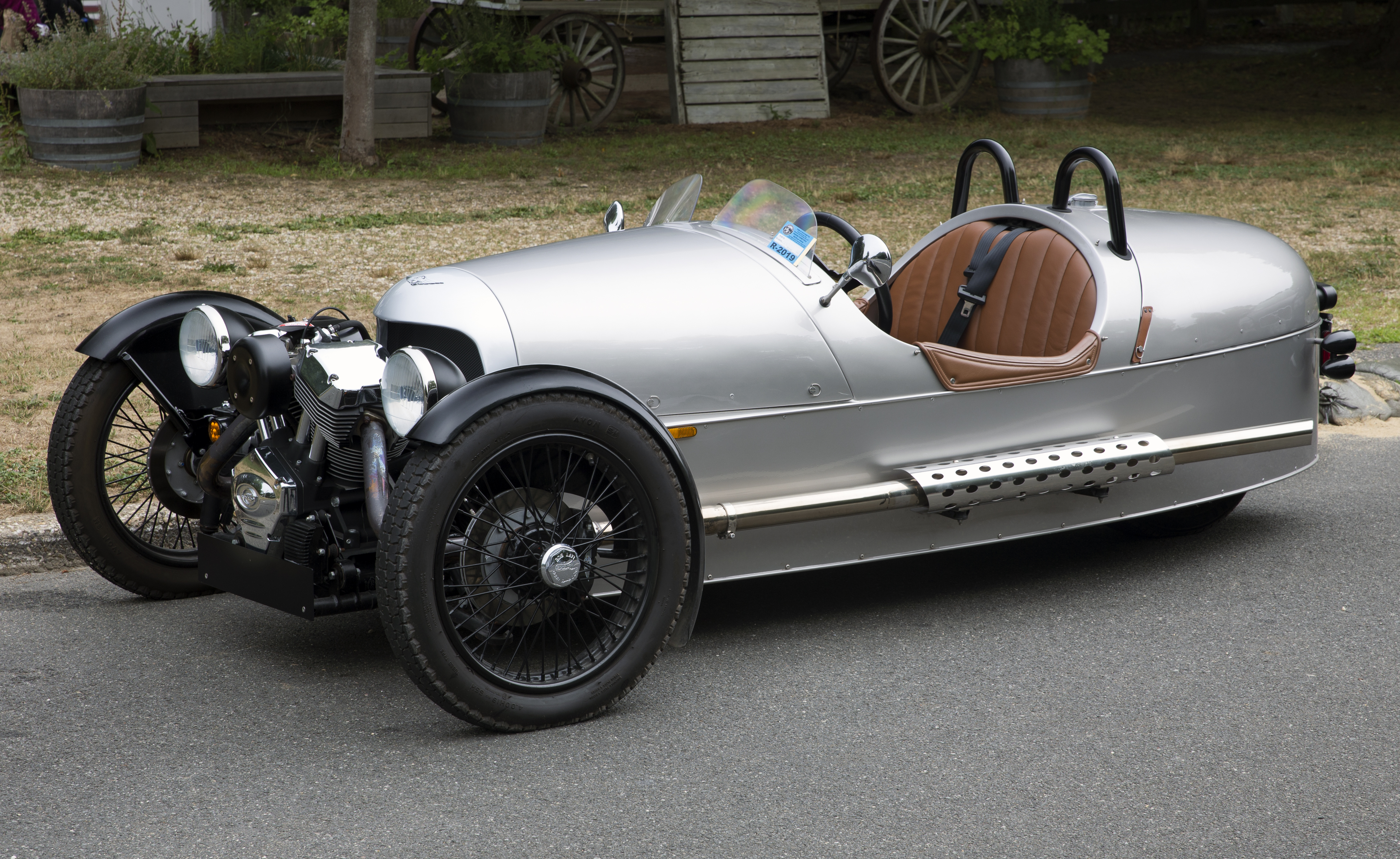 Someone took their 3-Wheeler to the Farmers' Market and I love them for it.